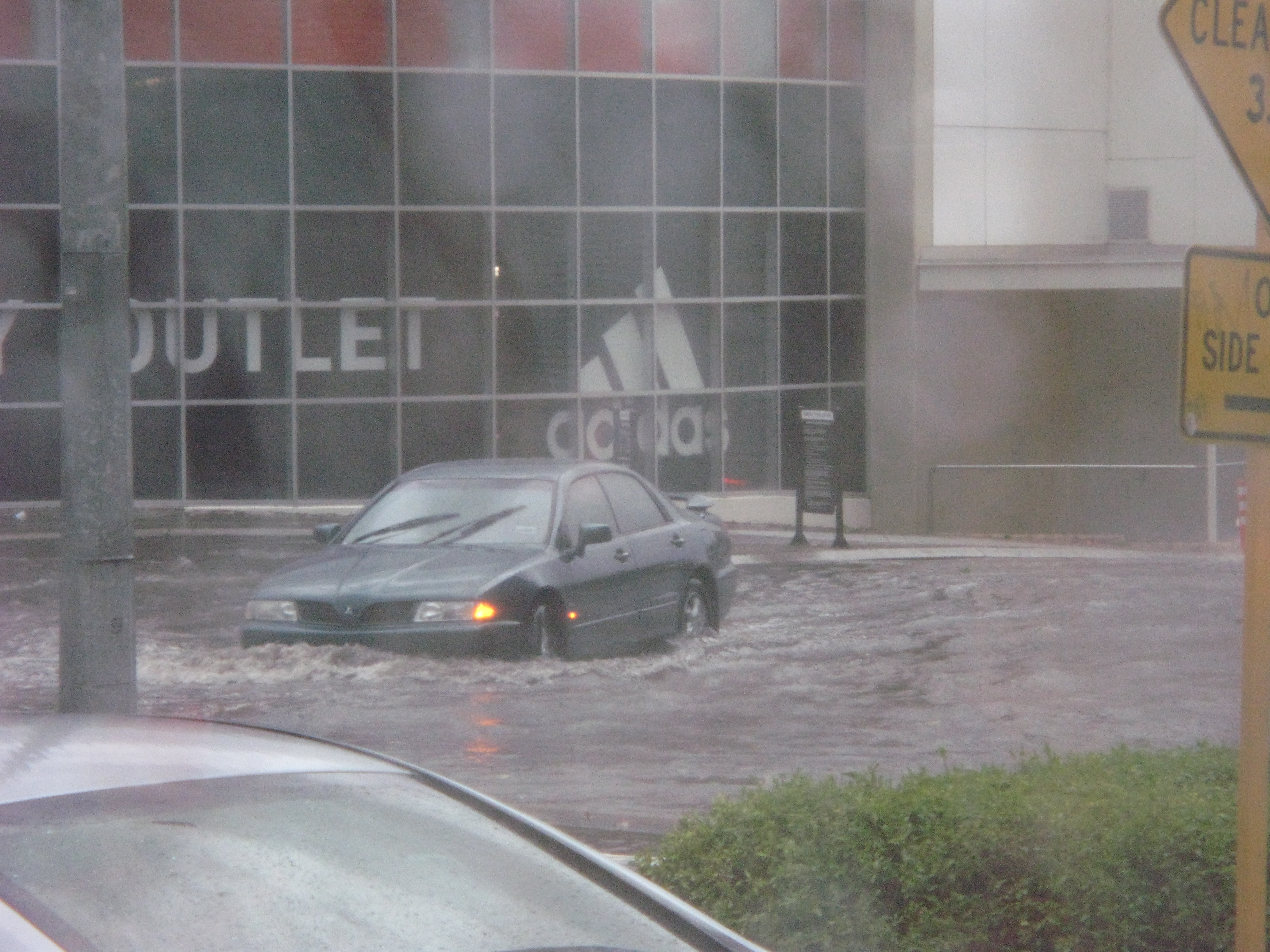 Flashing flooding at an intersection on Wellington Street, Perth, during the 2010 Perth storms. Photo taken by myself in March 2010.